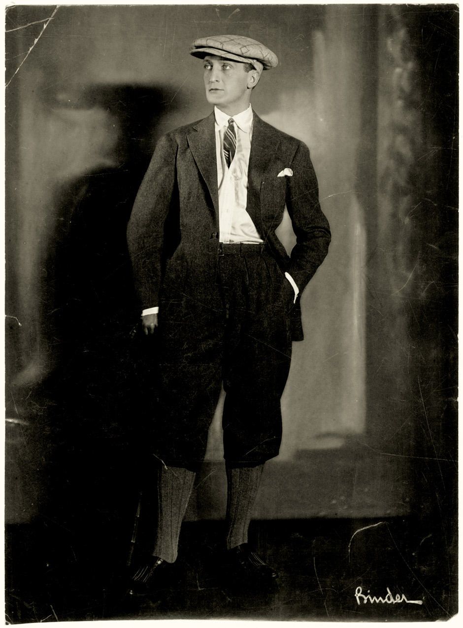 Portrait of the actor Hans Albers. 1922. Vintage gelatin silver print. 21 x 15,5 cm.